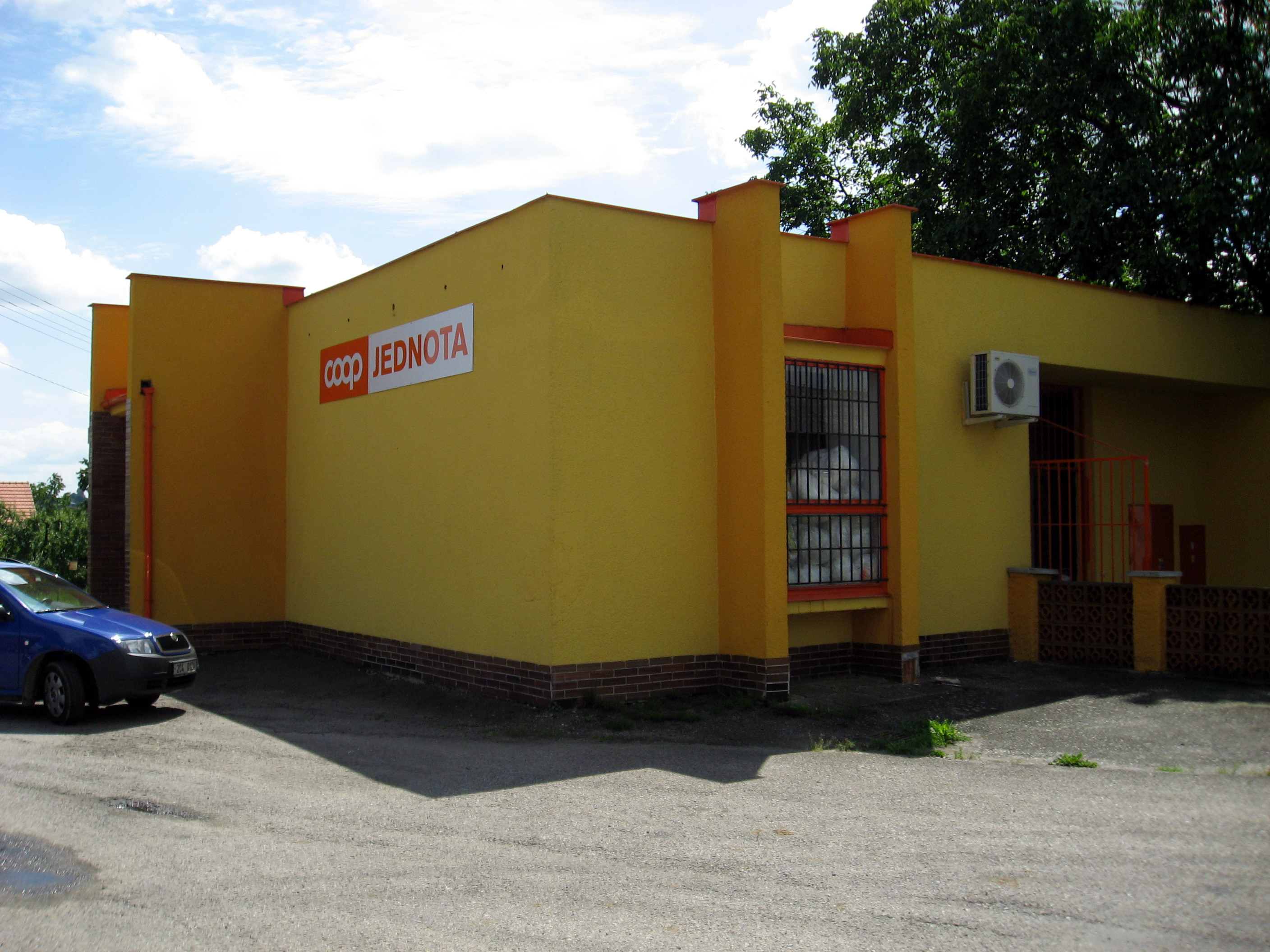 Kámen, Pelhřimov District, Czechia.